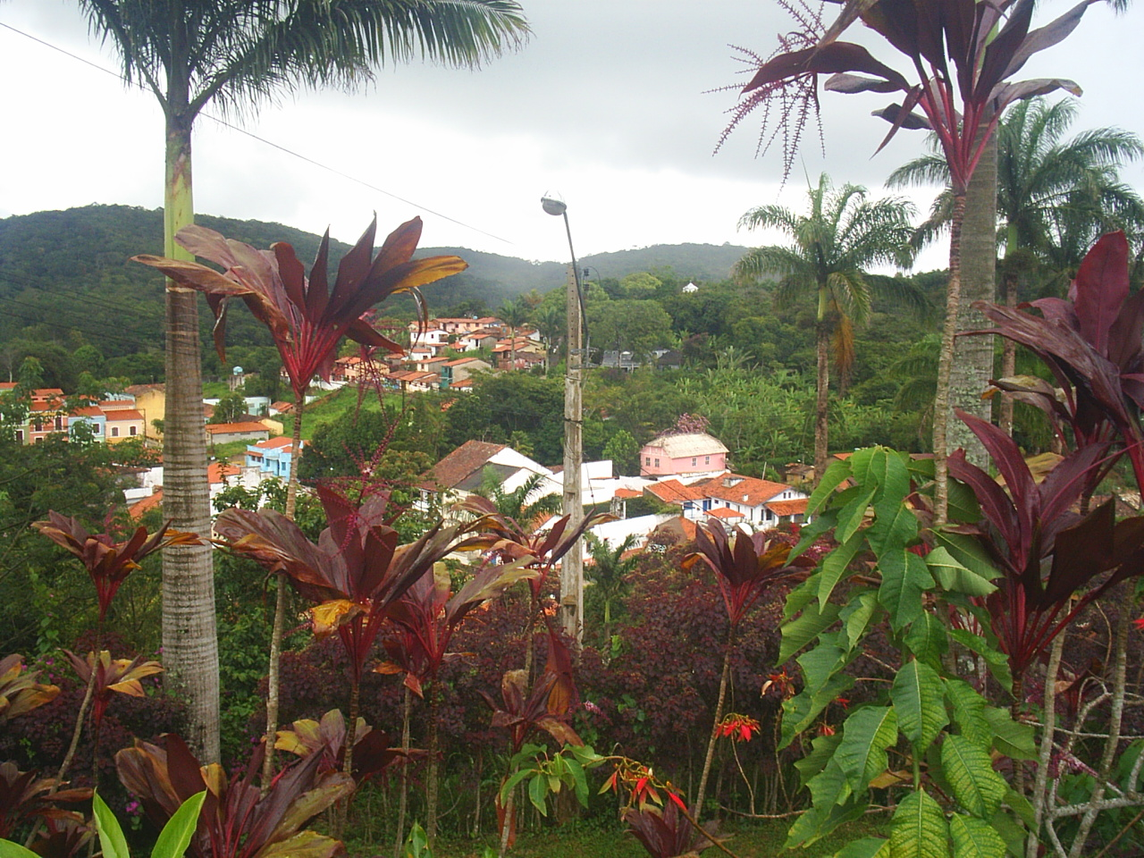 Guaramiranga from a distance.